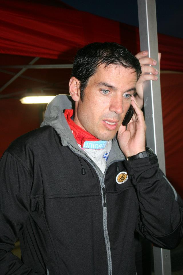 Diego Vallejo, spanish rallye co-driver in Rally Catalunya-Costa Daurada 2011.